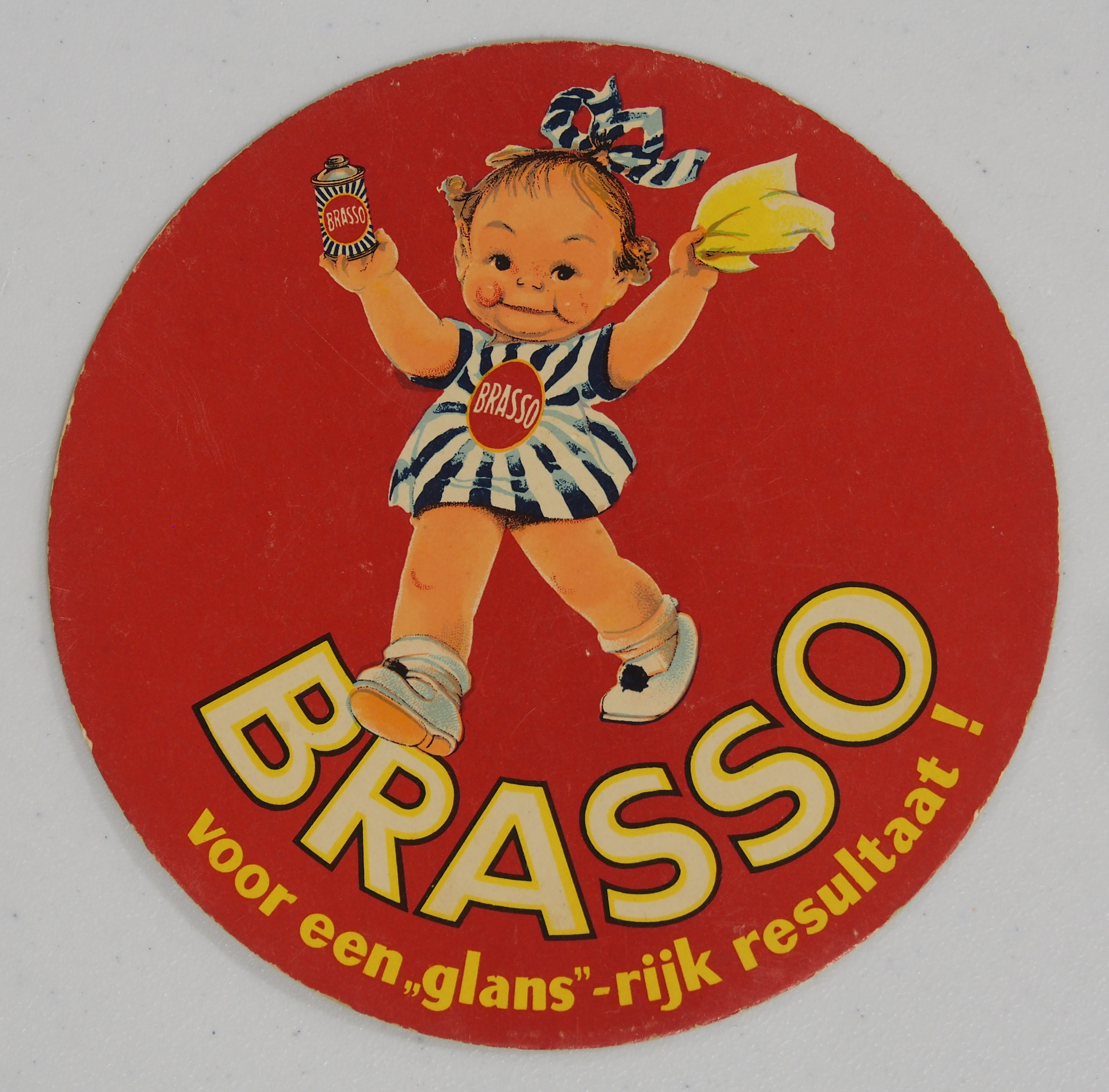 Old dutch product that is not produced and not sold anymore for a very long time and the company does not exist anymore either.